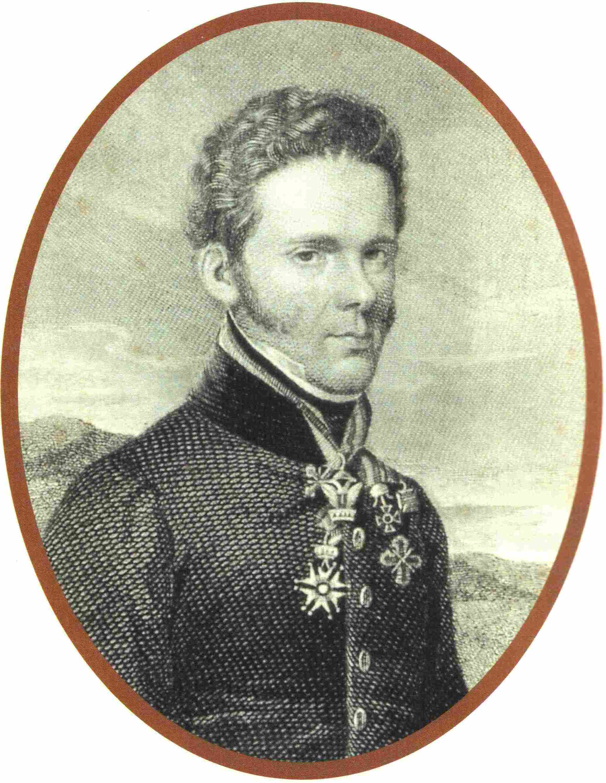 Joseph von Werklein (1777-1849), austrian officer who was Secretary of State of the Duchy of Parma, Piacenza and Guastalla 1829-1831.